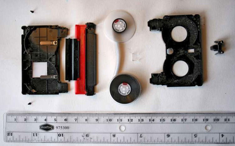 A mini dv video tape that has been taken apart